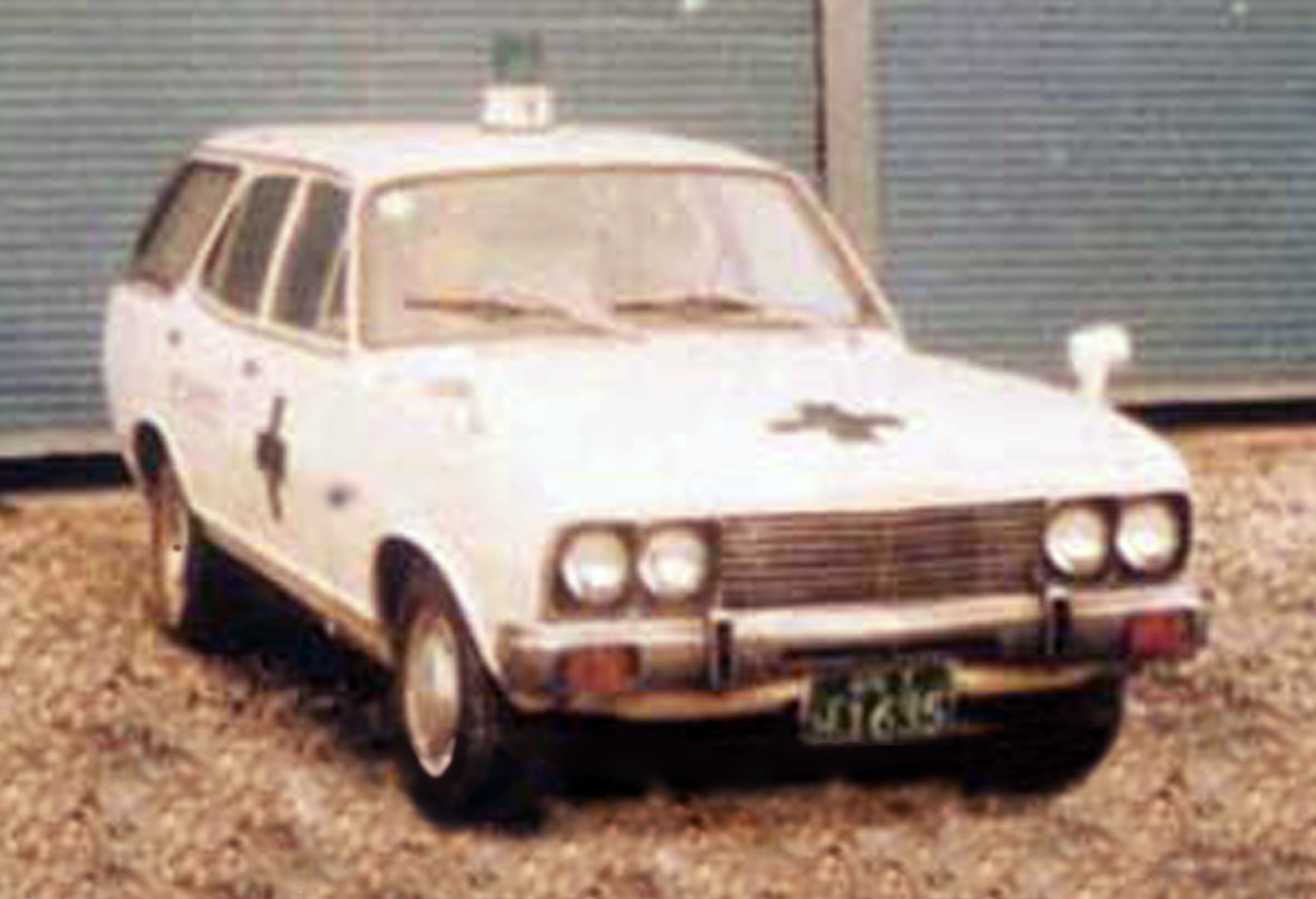 A 1976-1978 Saehan Camina Wagon in front of the Seoul Metropolitan Fire & Disaster Headquarters in 1982..